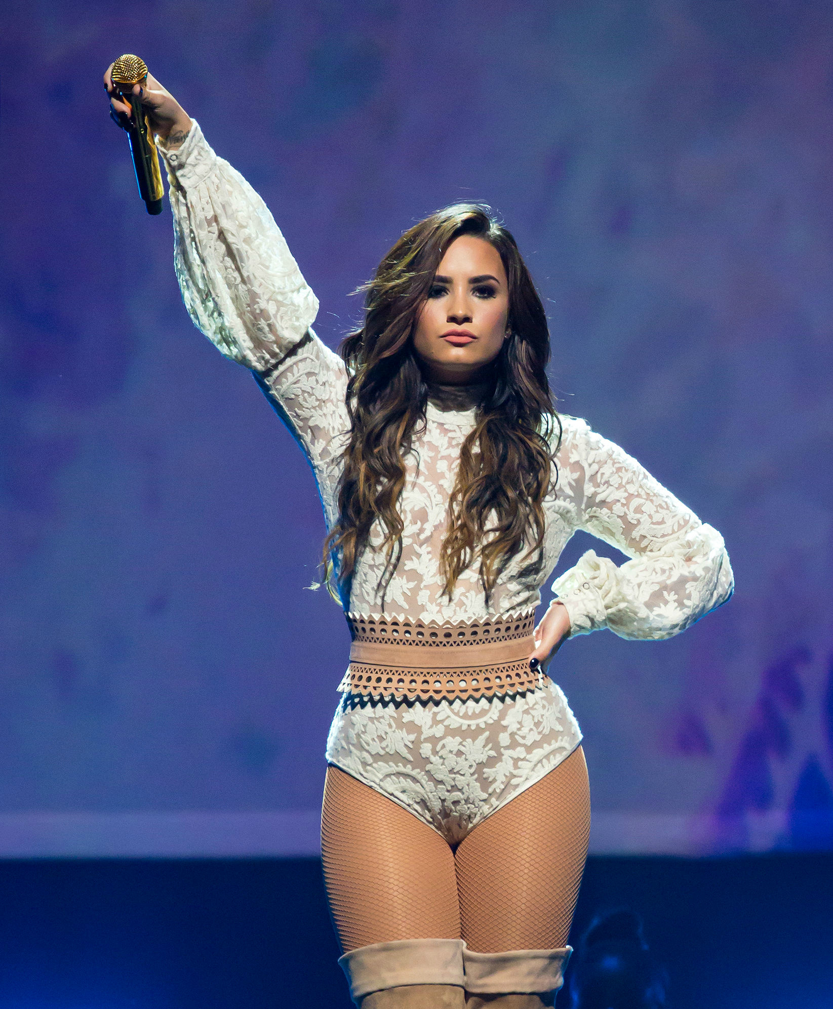 Demi Lovato performing at the AT&T Center in San Antonio, Texas on September 10, 2016.